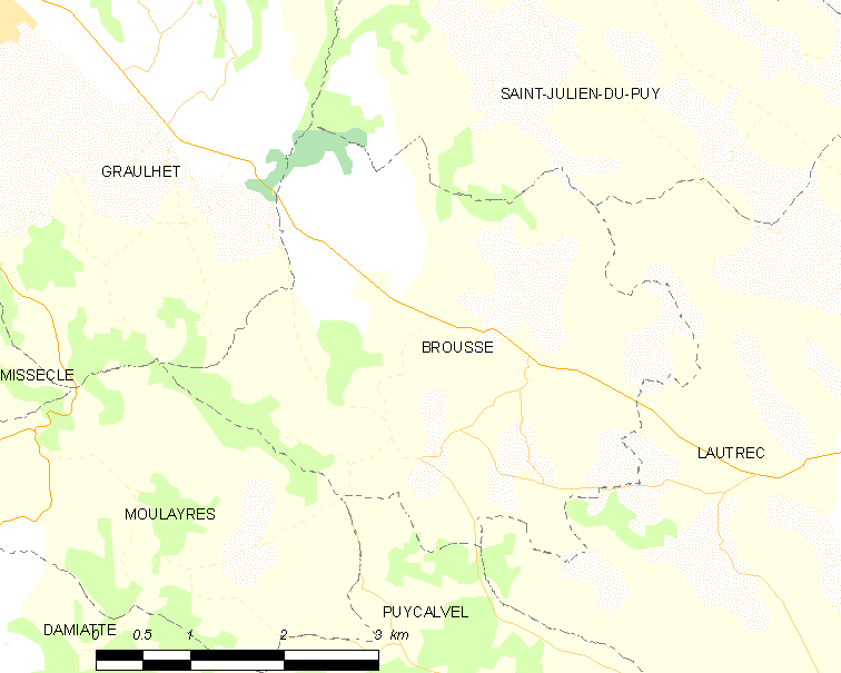 Map of French municipality Brousse